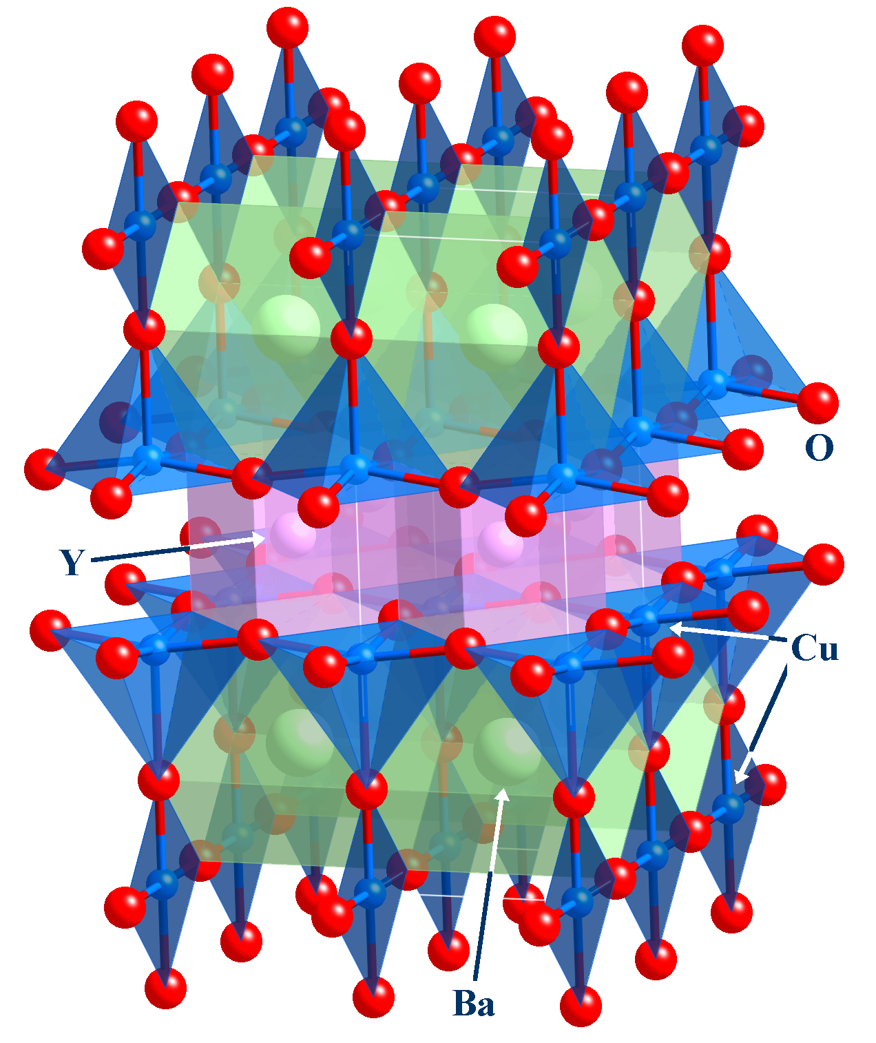 YBa2Cu3O7: A 'hybrid' ball and stick/polyhedral representation of the YBa2Cu3O7 structure